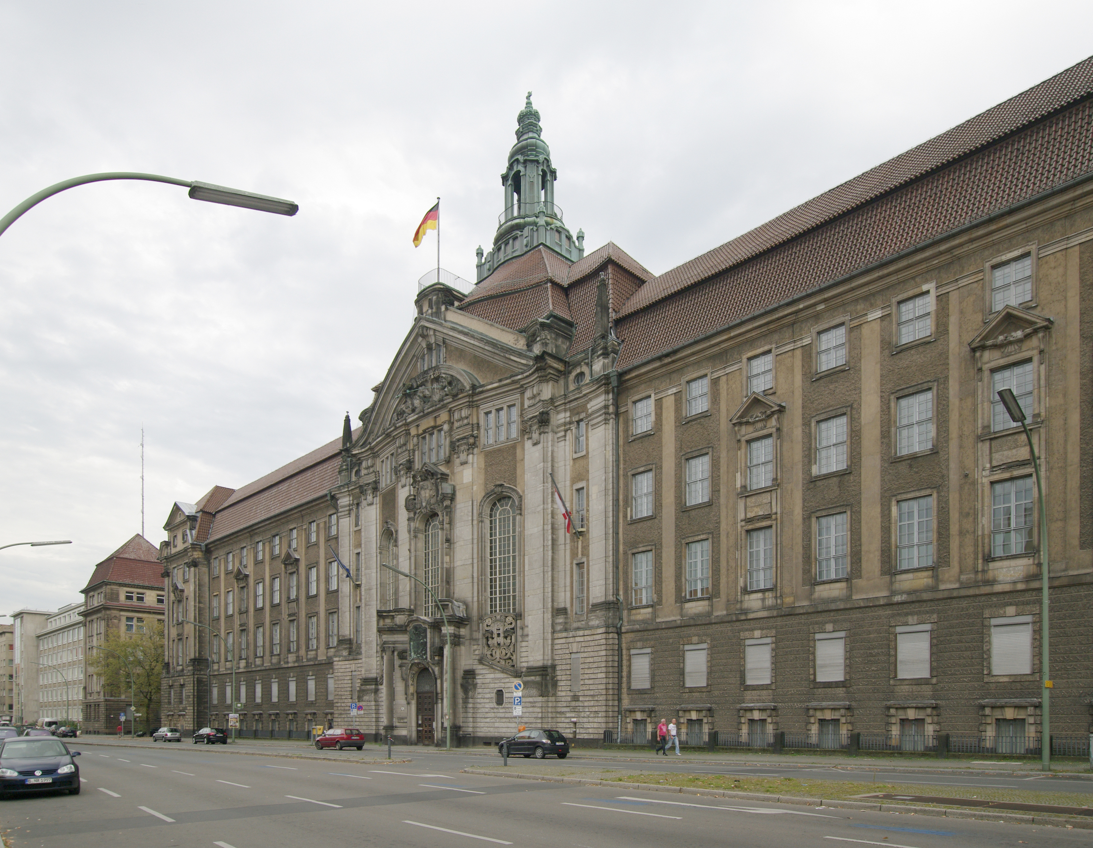 Amtsgericht Schöneberg